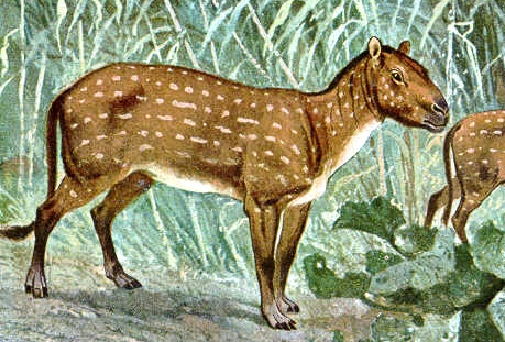 Crop of file in filename